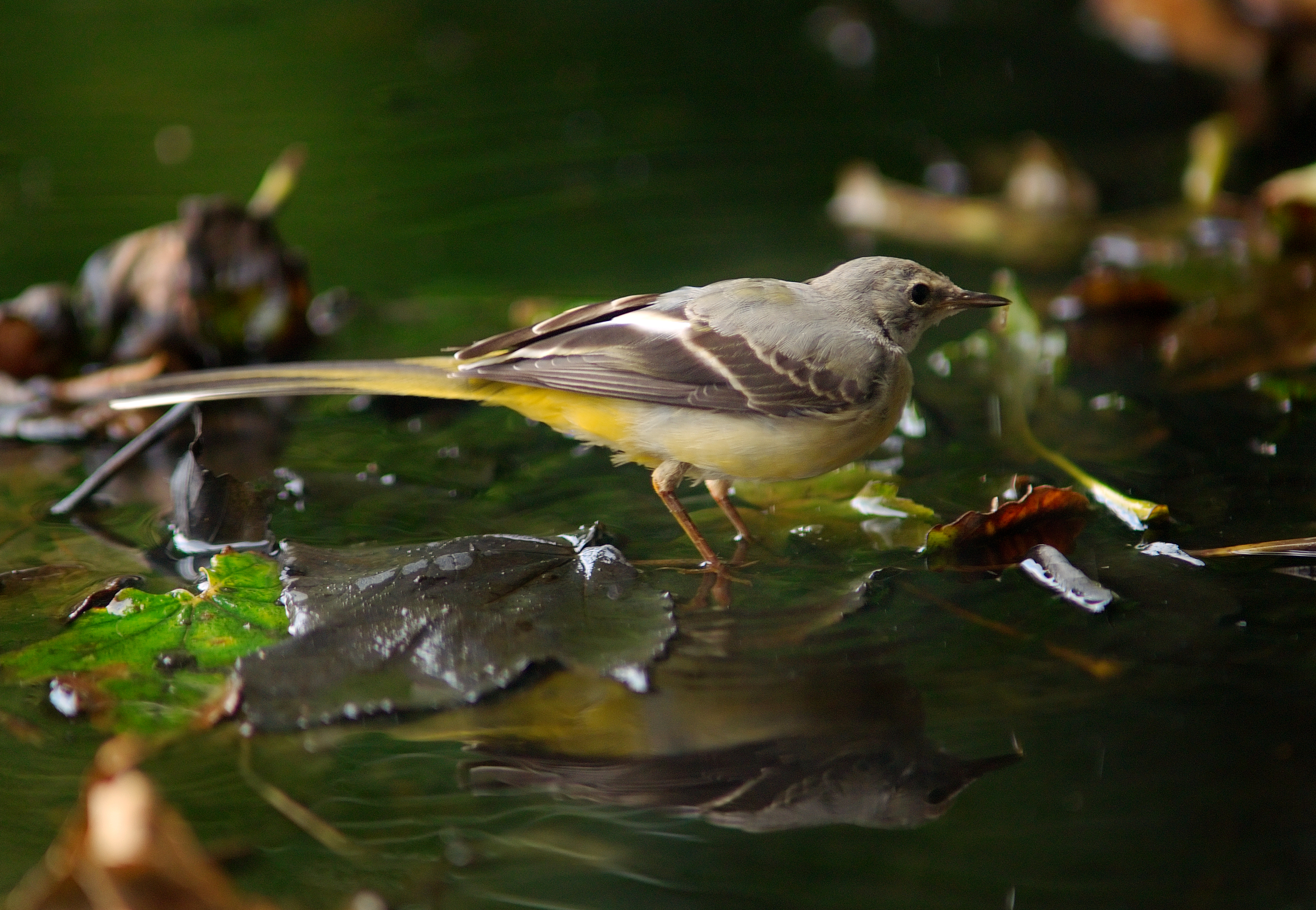 Motacilla cinerea (Grey Wagtail) in Belgium (Brussels)